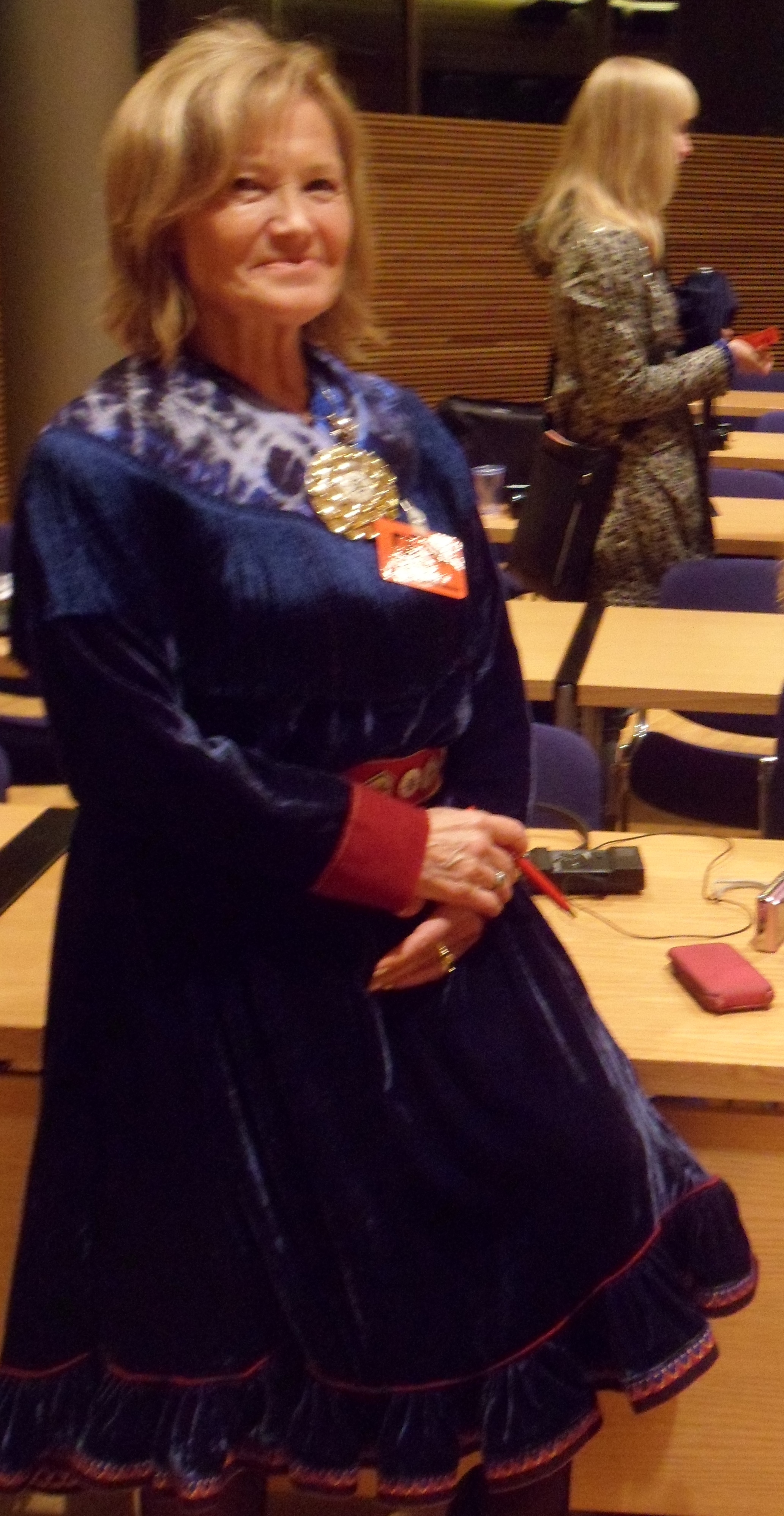 Northern Sámi politician and lecturer Irja Seurujärvi-Kari at the Sámi and Maori Language Revitalization Seminar in Helsinki, Finland on September 13 2011